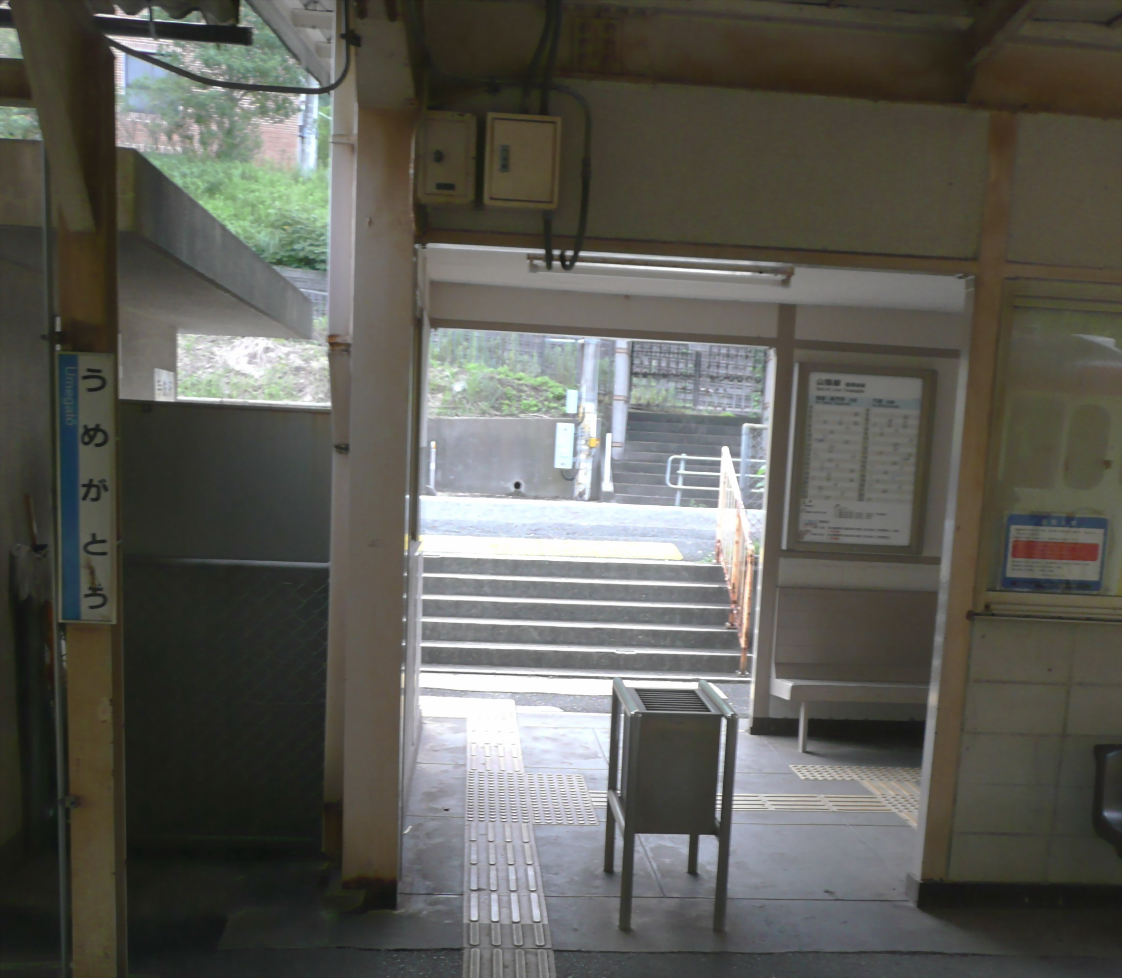 Umegato Station ticket gate